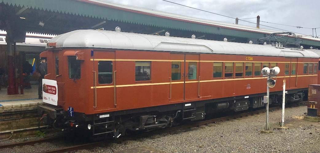 Sydney's vintage F1 EMU, one of the world's oldest operational electric trains. Seen at Sydney Central at the 2017 NSW Heritage Expo.